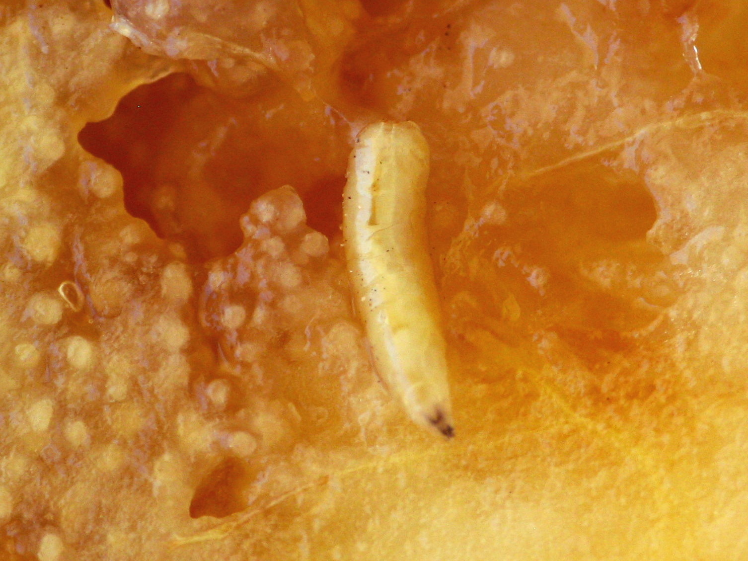 Medfly larvae (Ceratitis capitata)